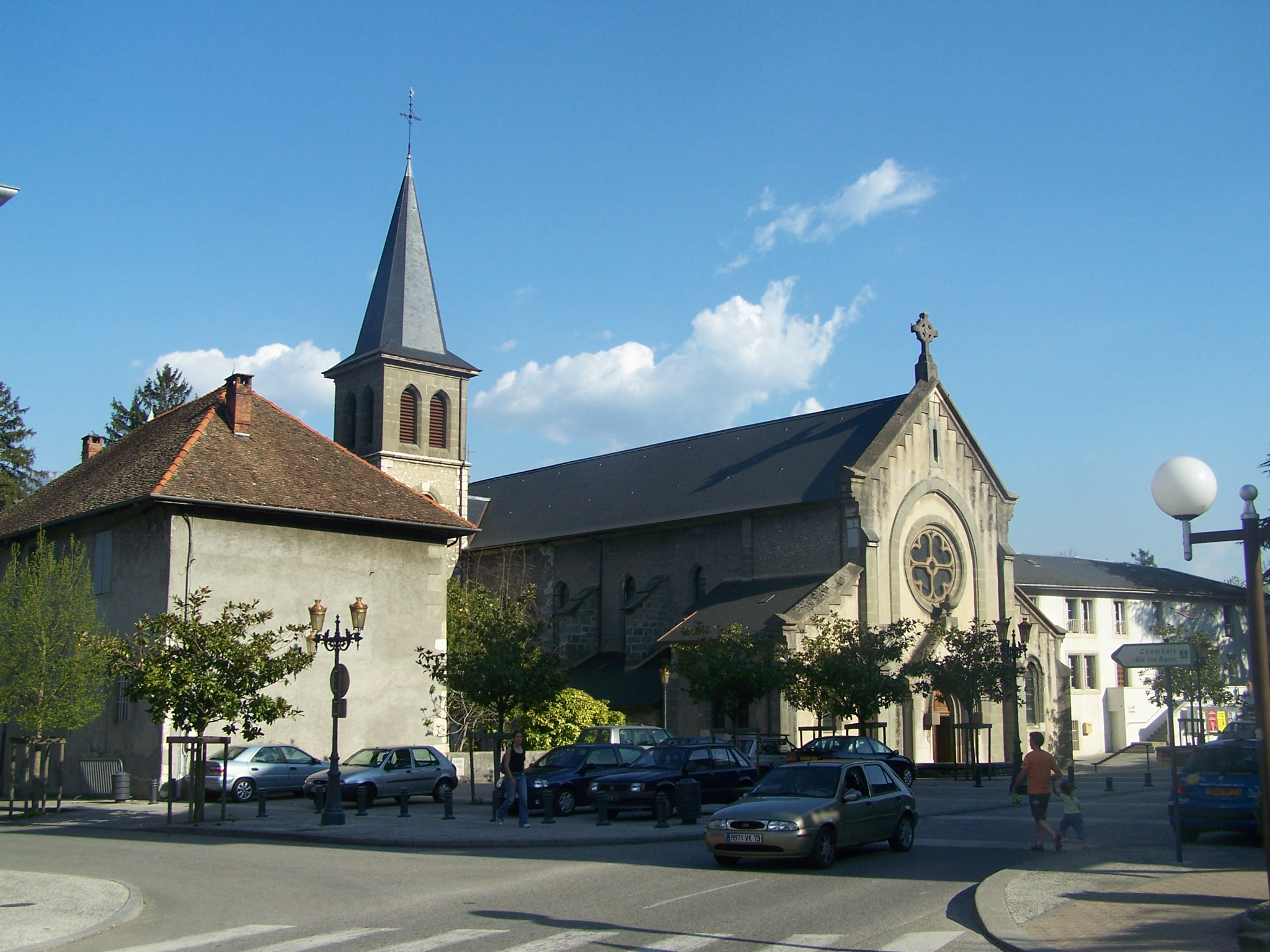 Église Saint-Laurent church of the Savoyan city of Le Bourget-du-Lac, in France.